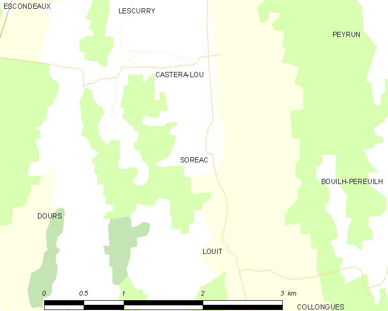 Map of French municipality